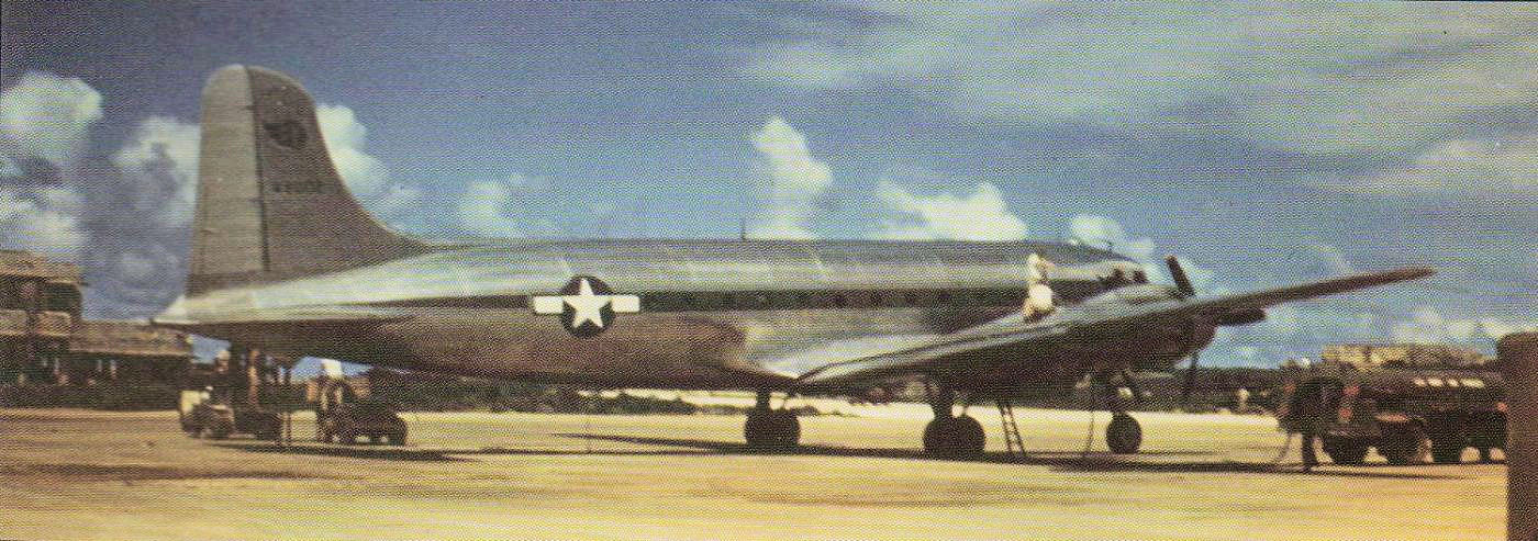 320th Troop Carrier Squadron C-54B-20-DO 44-9007, 1945